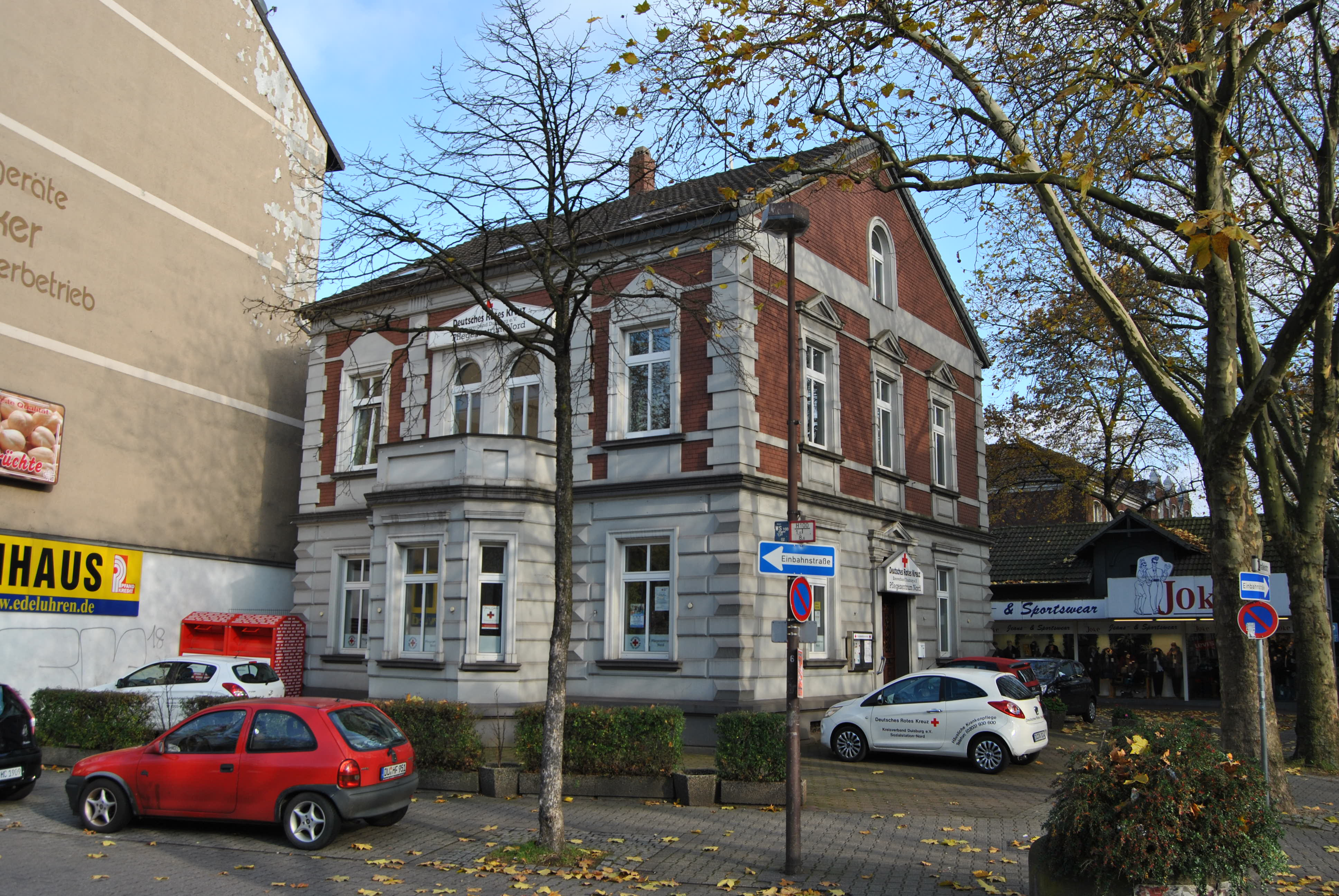 Duisburg (North Rhine-Westphalia, Germany) – borough Hamborn, district Alt-Hamborn – villa This image shows a heritage building in Germany, located in the North Rhine-Westphalian city Duisburg (no. 618). This photograph was taken with a Nikon D3000